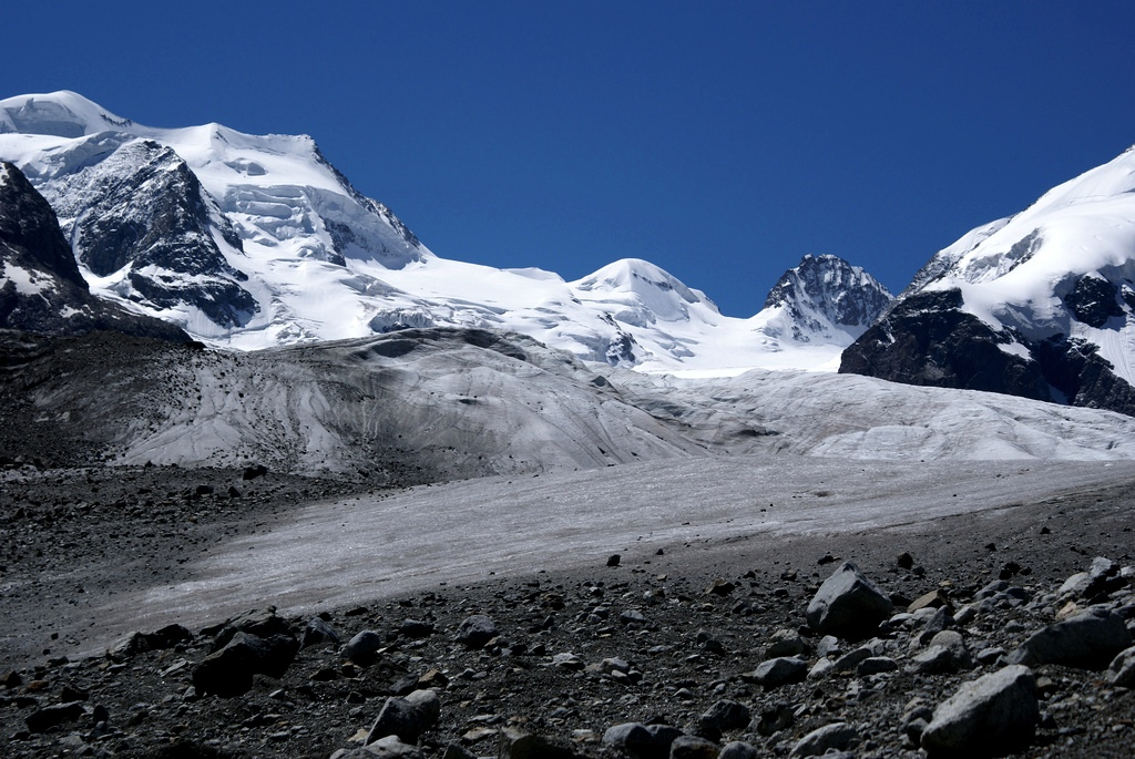 Morteratsch Glacier, Graubünden